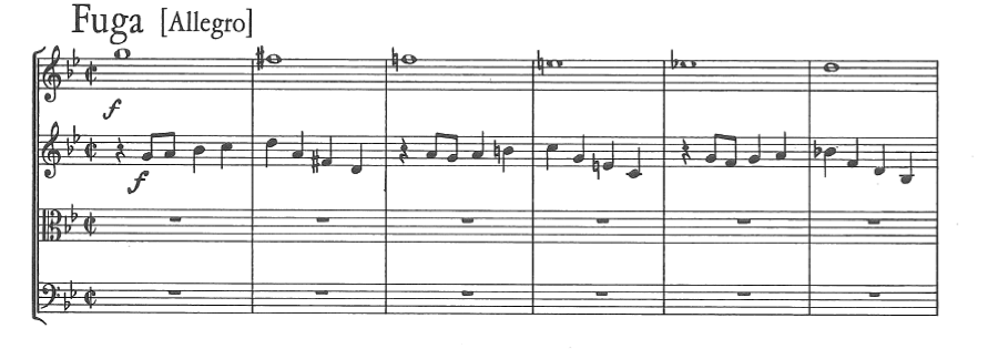 The Fugal Subject in Richter's Symphony no. 29 in G minor